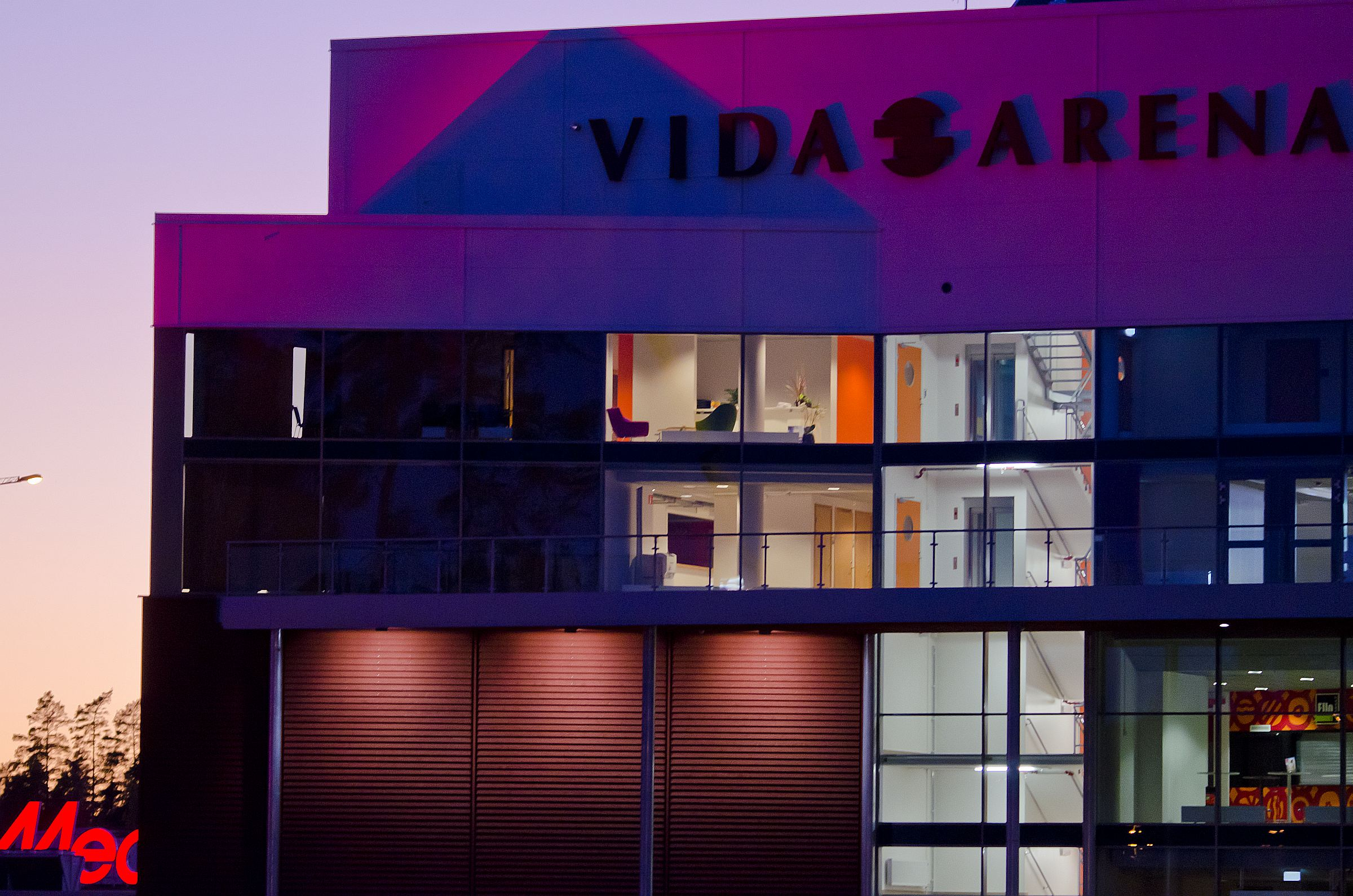 The western face of Växjö Lakers' new VIDA Arena at dusk.